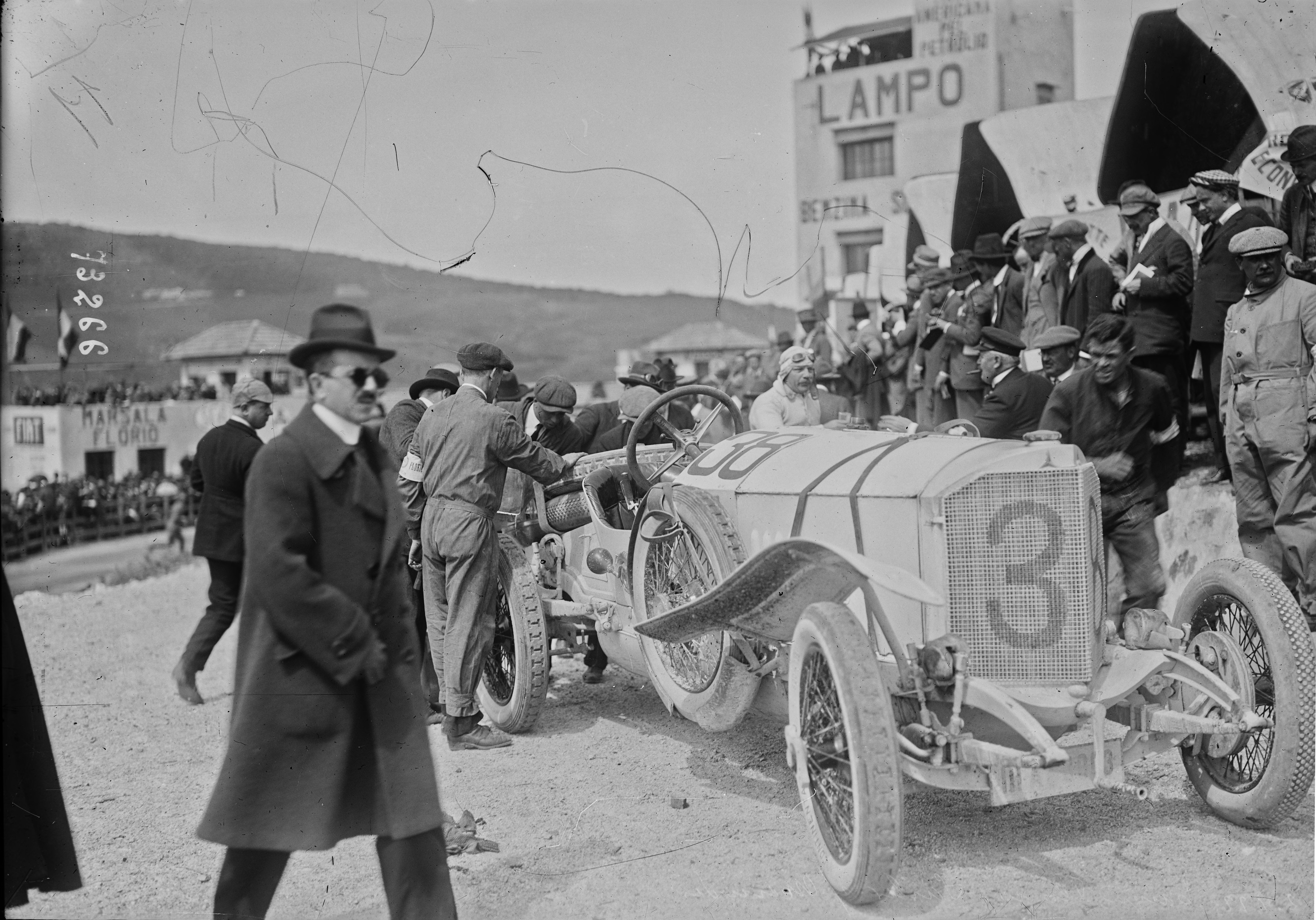 Max Sailer in his Mercedes at the 1922 Targa Florio.